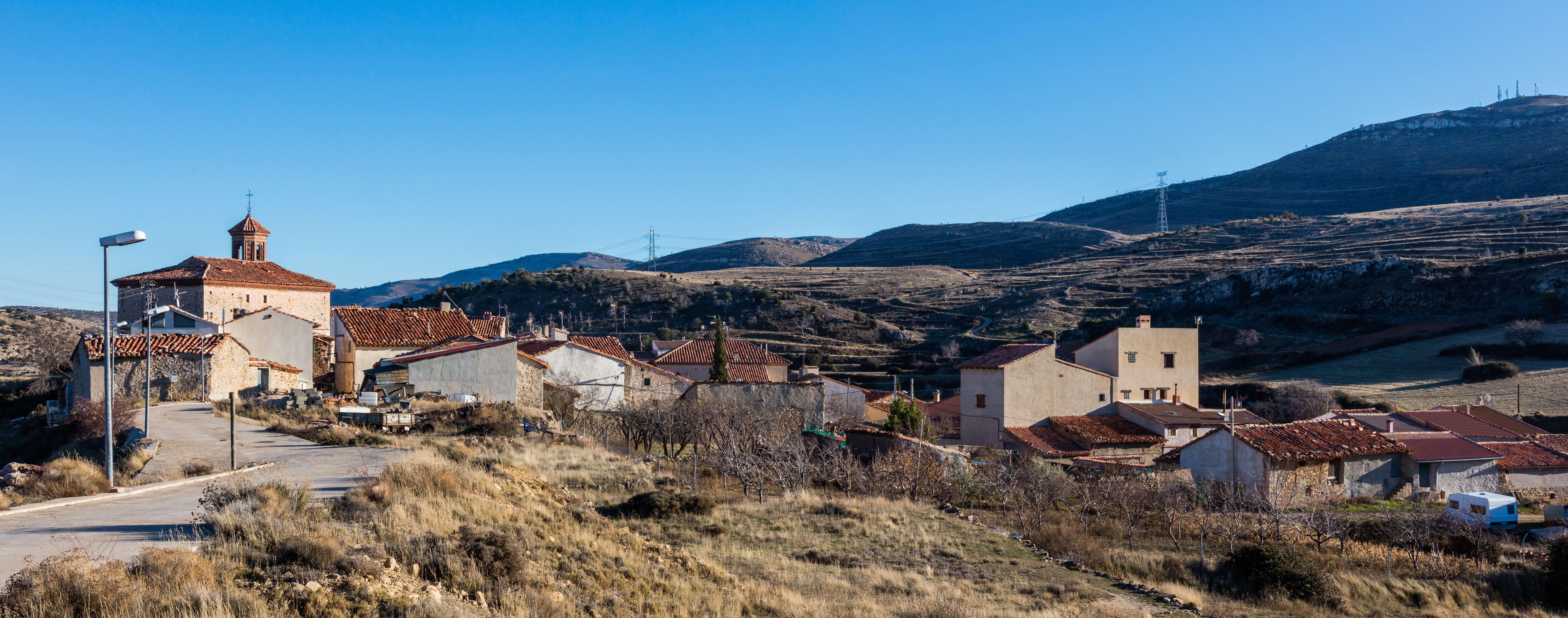 La Zoma, Teruel, Spain